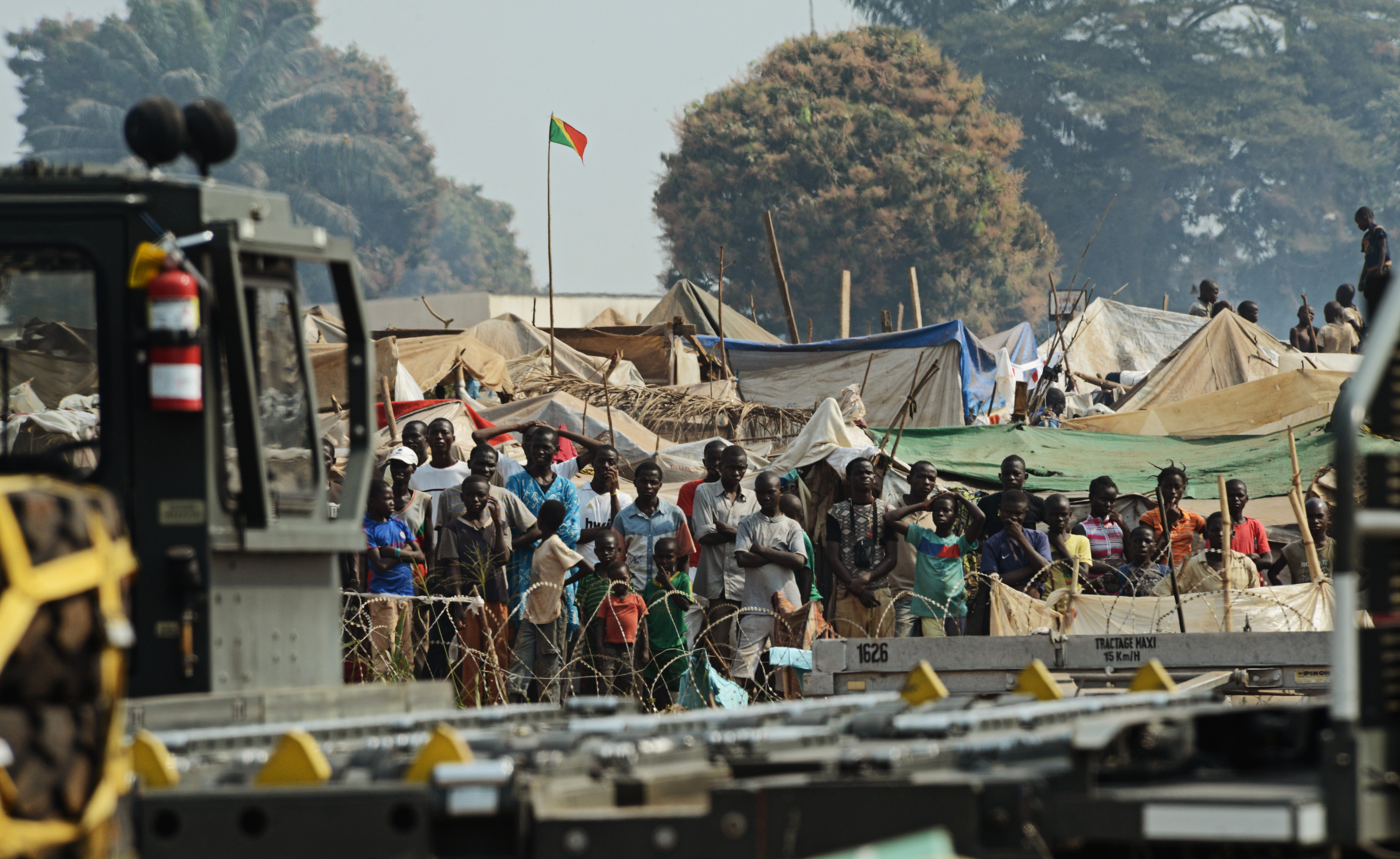 Refugees of the fighting in the Central African Republic observe Rwandan soldiers being dropped off at Bangui M'Poko International Airport in the Central African Republic Jan. 19, 2014. U.S. forces were dispatched to provide airlift assistance to multinational troops in support of an African Union effort to quell violence in the Central African Republic.